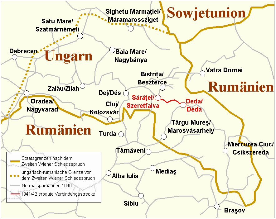 Map of the sitution of the railways 1942 in the Hungarian part of Transilvania